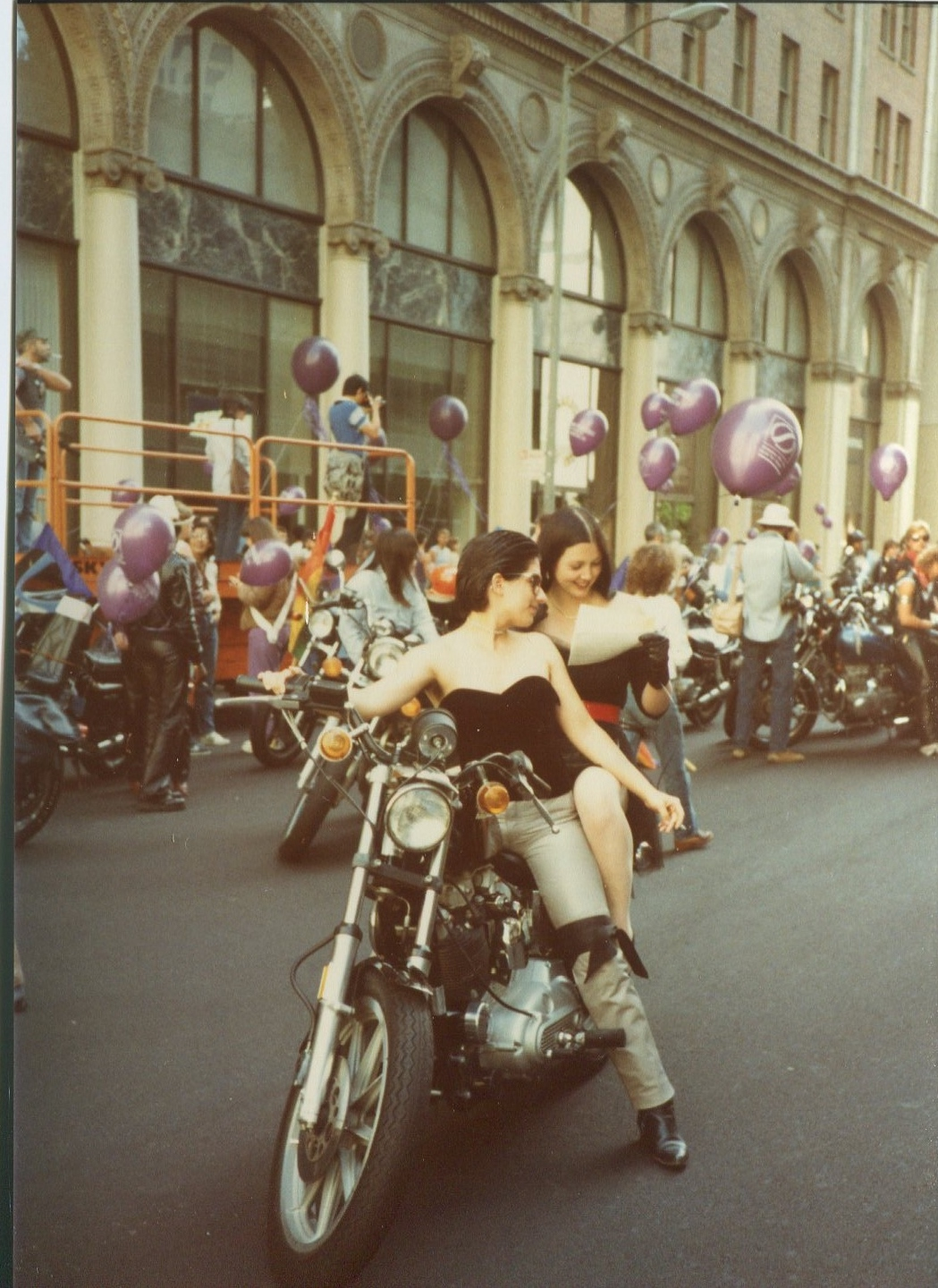 Girls on bike